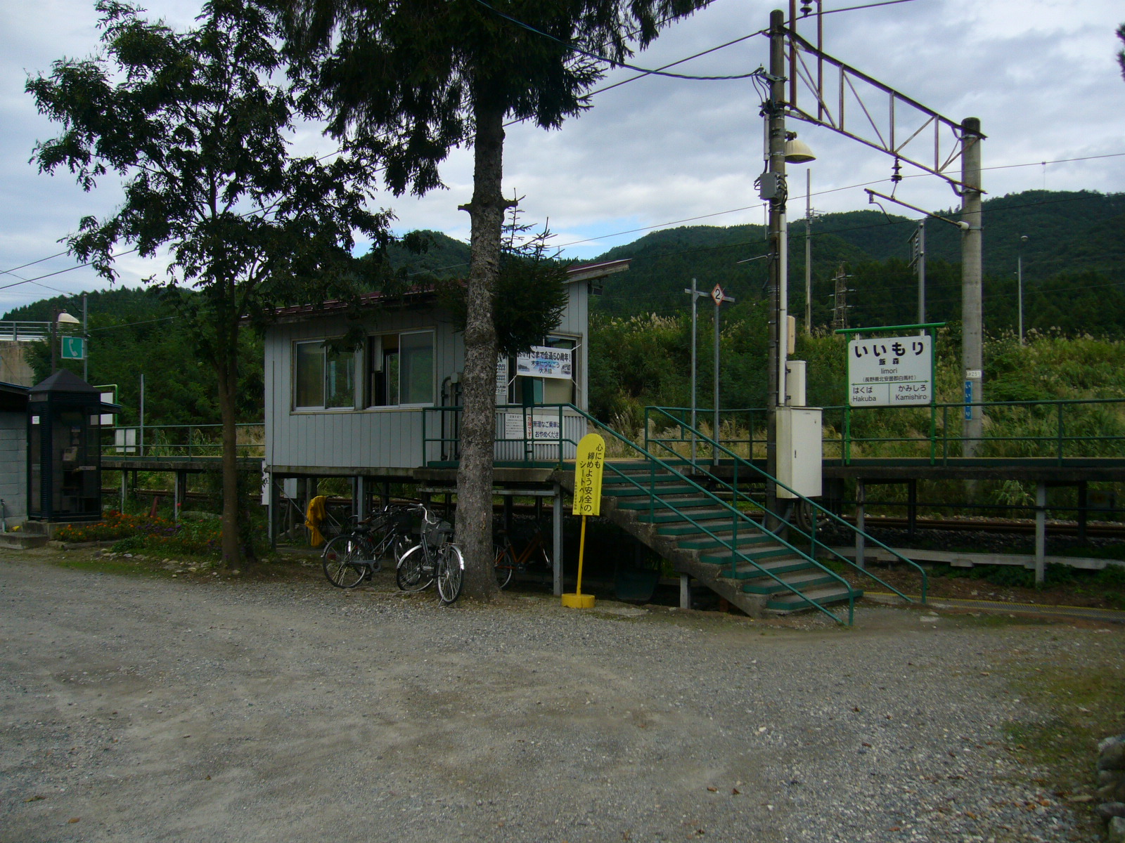 Iimori Station, Oito Line, Hakuba Village, Nagano Pref., Japan